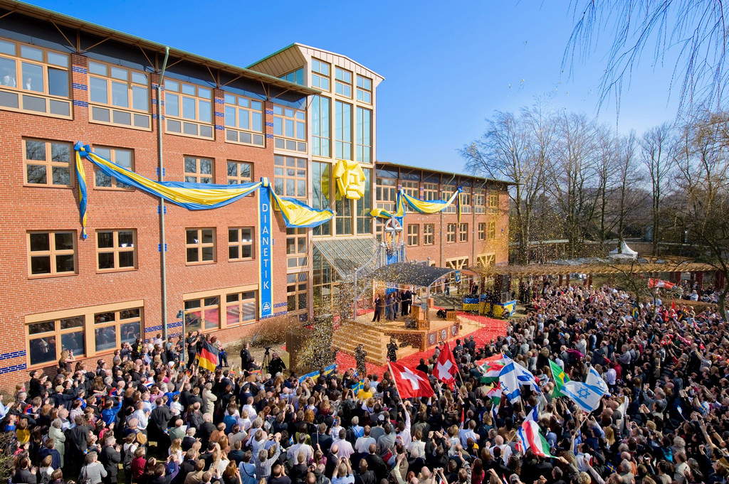 Opened 4 April 2009